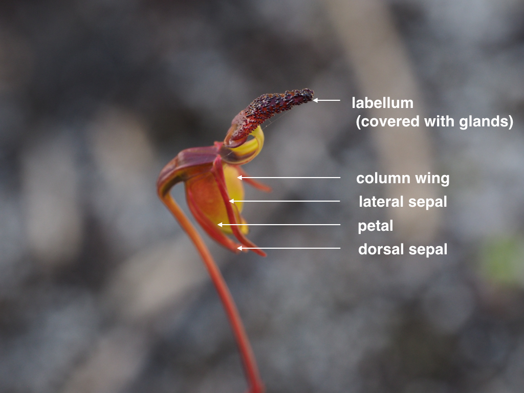 Labelled image of Paracaleana nigrita